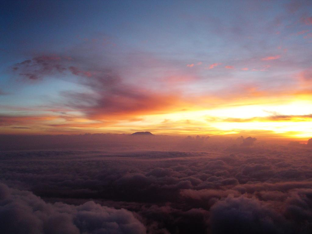 Sunrise from the summit of Mt Meru (4566m). In the background the summit of Mt Kilimanjaro (5895m).